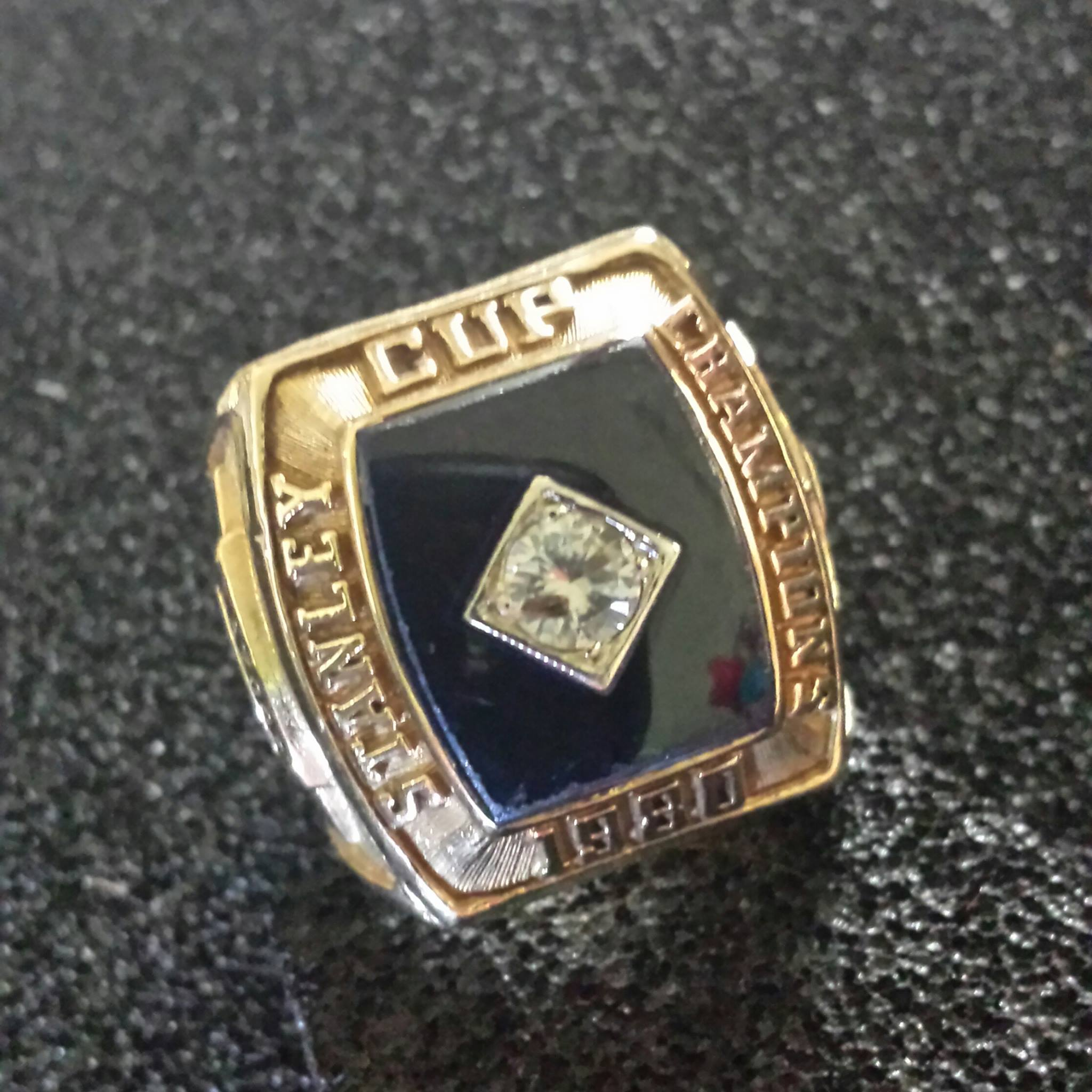 Hal was scout for Islanders in NHL through the 1980's as they won 4 Championships in NHL